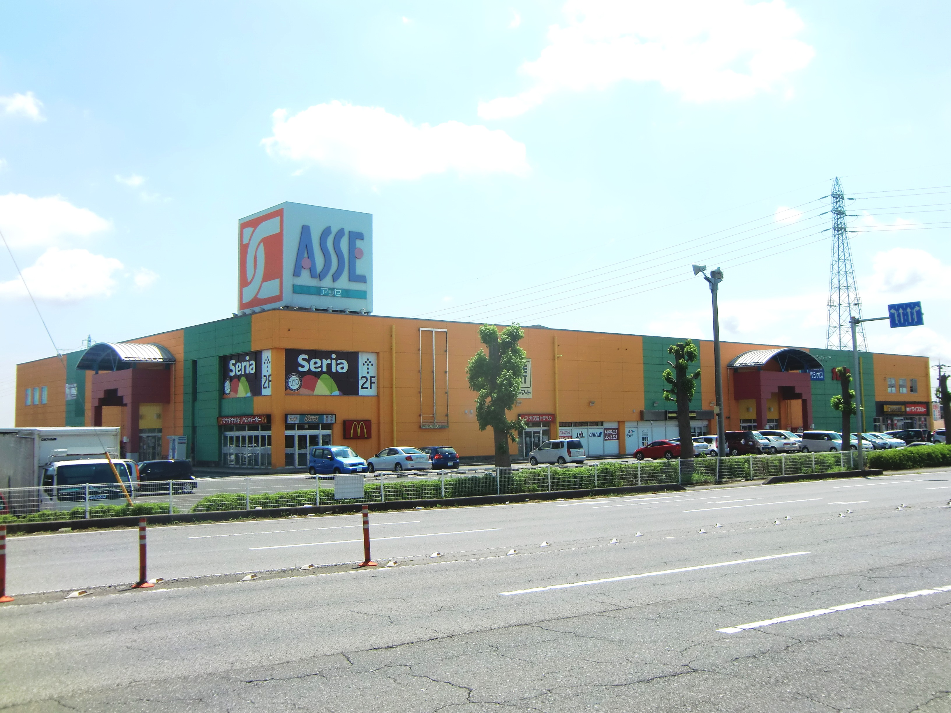 Tsukuba shopping center ASSE in Kamiyokoba, Tsukuba city, Ibaraki prefecture, Japan.